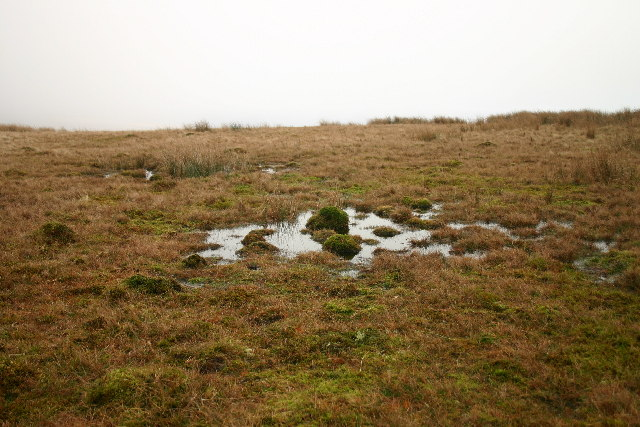 Sphagnum Bog, Ponsonby Fell. Close to the summit - a small raised bog.